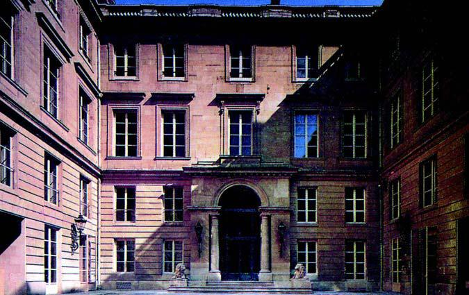 Hôtel de Saint-Florentin (also known as Hôtel de Talleyrand-Périgord), 2 rue Saint-Florentin, Paris.